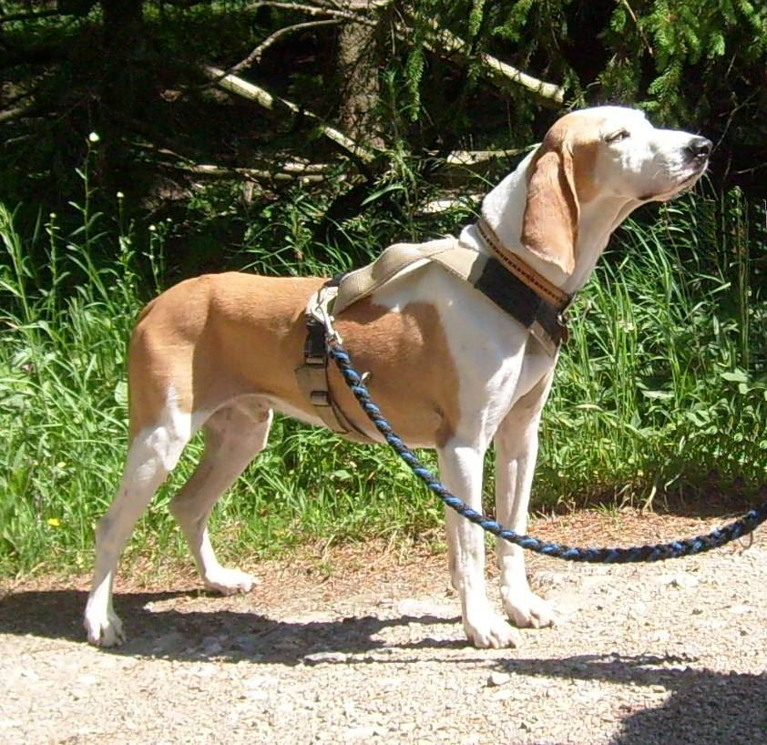 The Sabueso español (Spanish Scenthound)